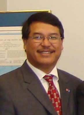 Diego Benavente, former Lt. Governor of the Northern Mariana Islands (cropped fro original)